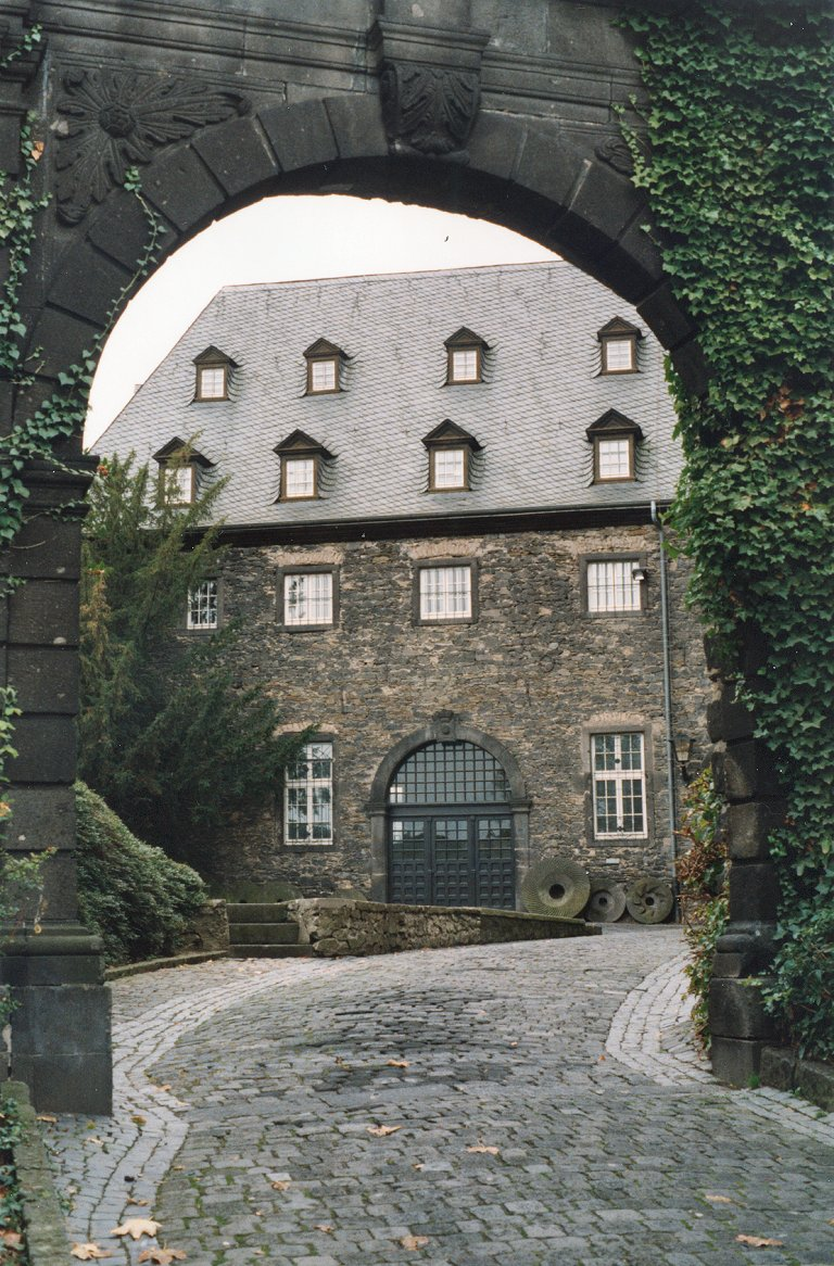 Genovevaburg in Mayen, former royal stud